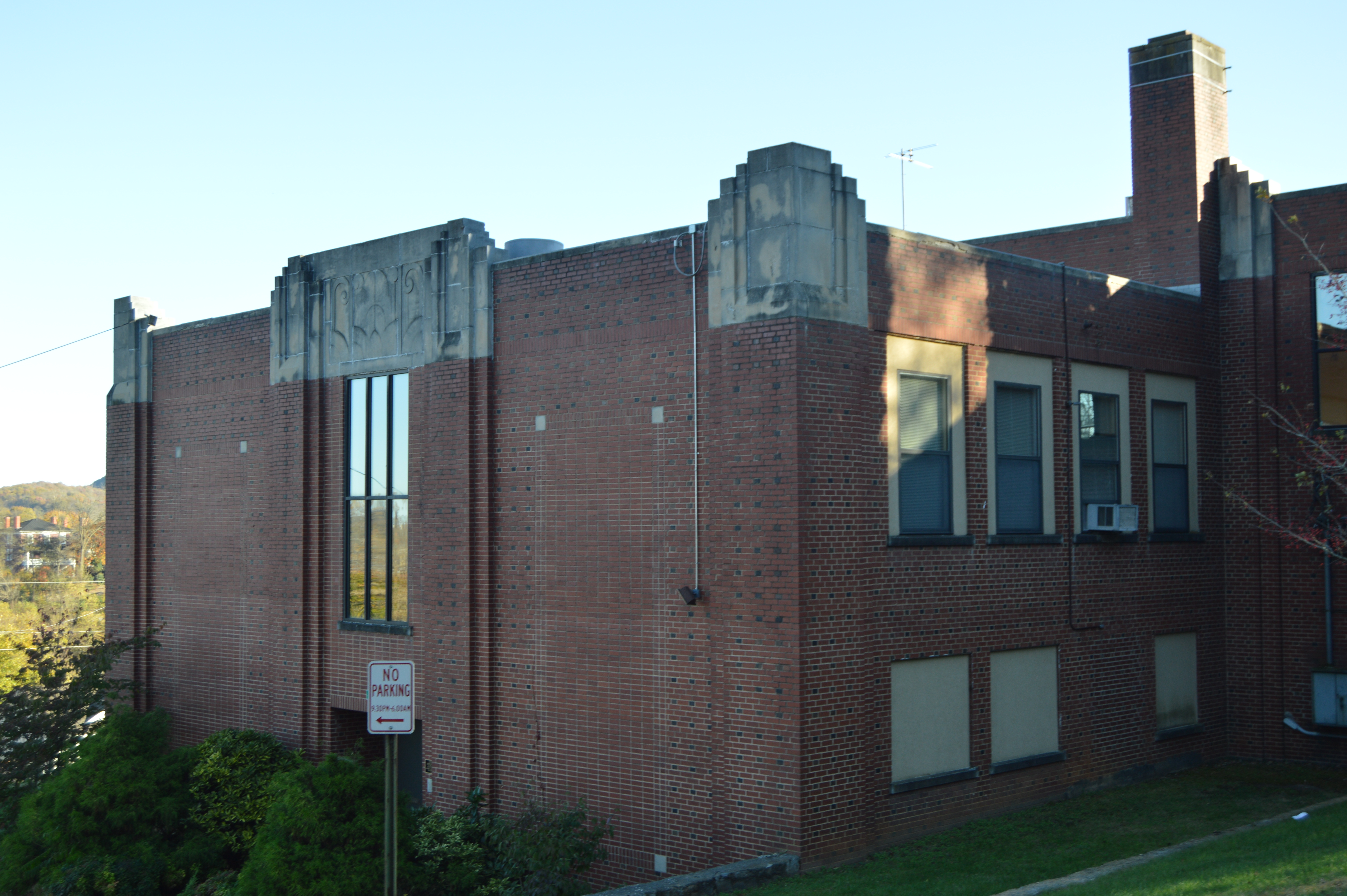 Northern end and western side of the former Booker T. Washington High School, located at 1114 W. Johnson Street in Staunton, Virginia, United States. Built in 1936 and now a community center, it is listed on the National Register of Historic Places.